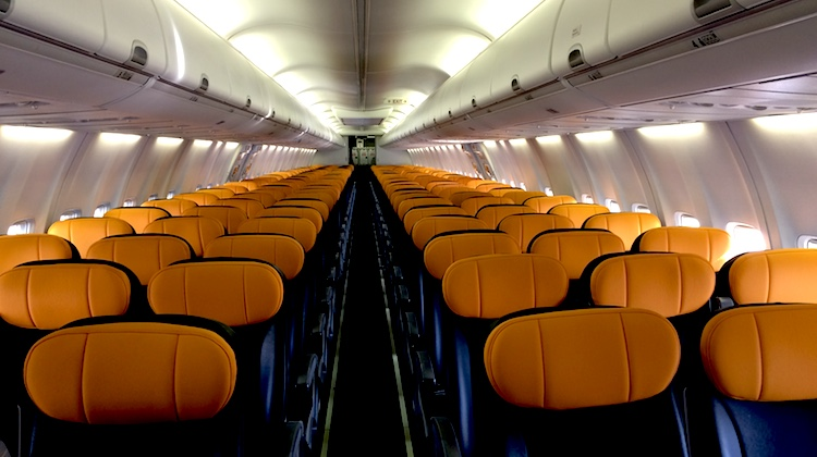 tiger air seat b737